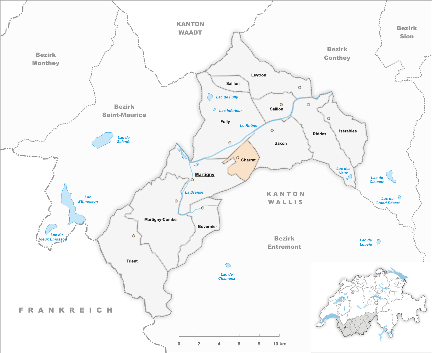 Municipality Charrat